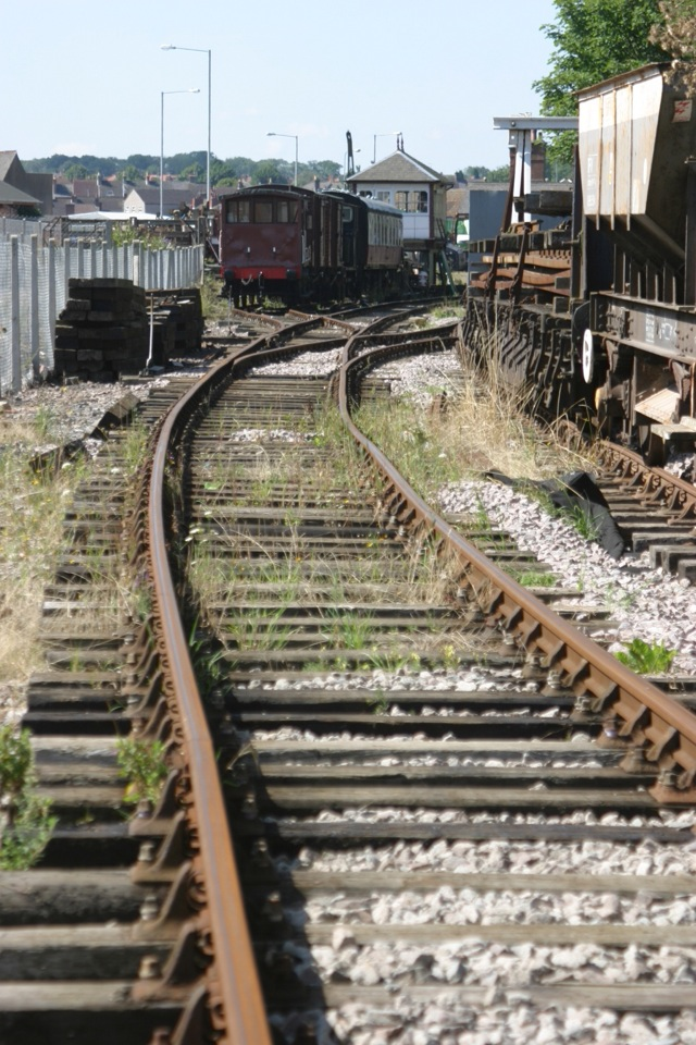 Running line on the Rushden, based at the former Rushden railway station in Northamptonshire, UK.